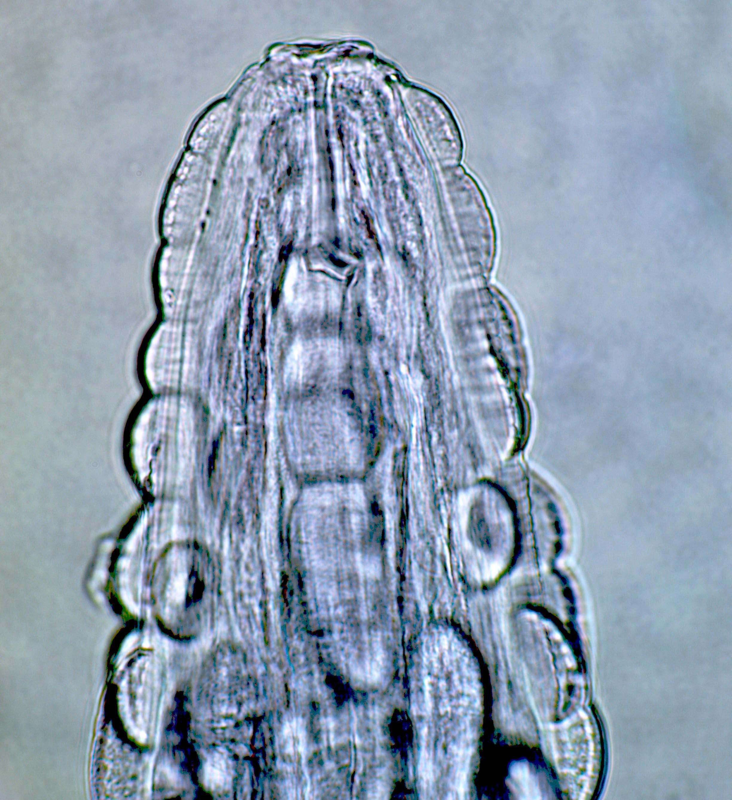 Gongylonema pulchrum (Nematoda), male, anterior part, cuticular bosses and deirids.